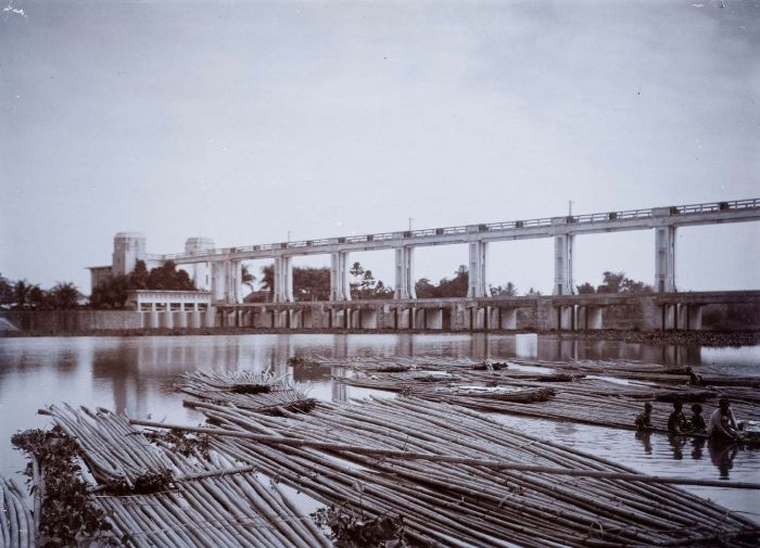 Bamboo rafts in front of the dam in the Ciujung river near Pamarayan